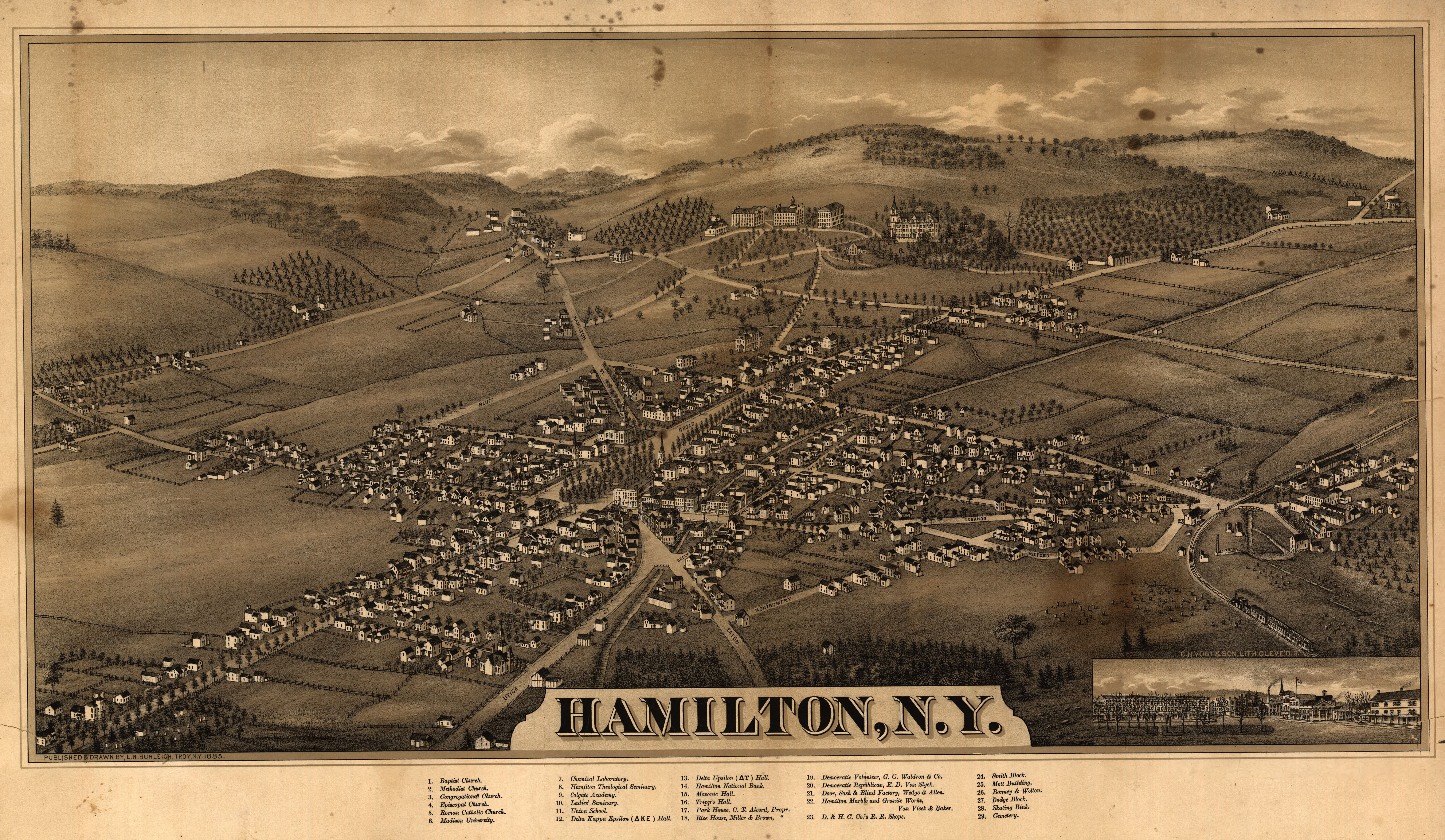 Bird's-eye view. Oriented with north toward the lower left. Includes index to points of interest and ill. Available also through the Library of Congress Web site as a raster image. LC copy faded, brittle, torn, taped, spotted, missing small section at lower right. Acquisitions control no.: 96-5.